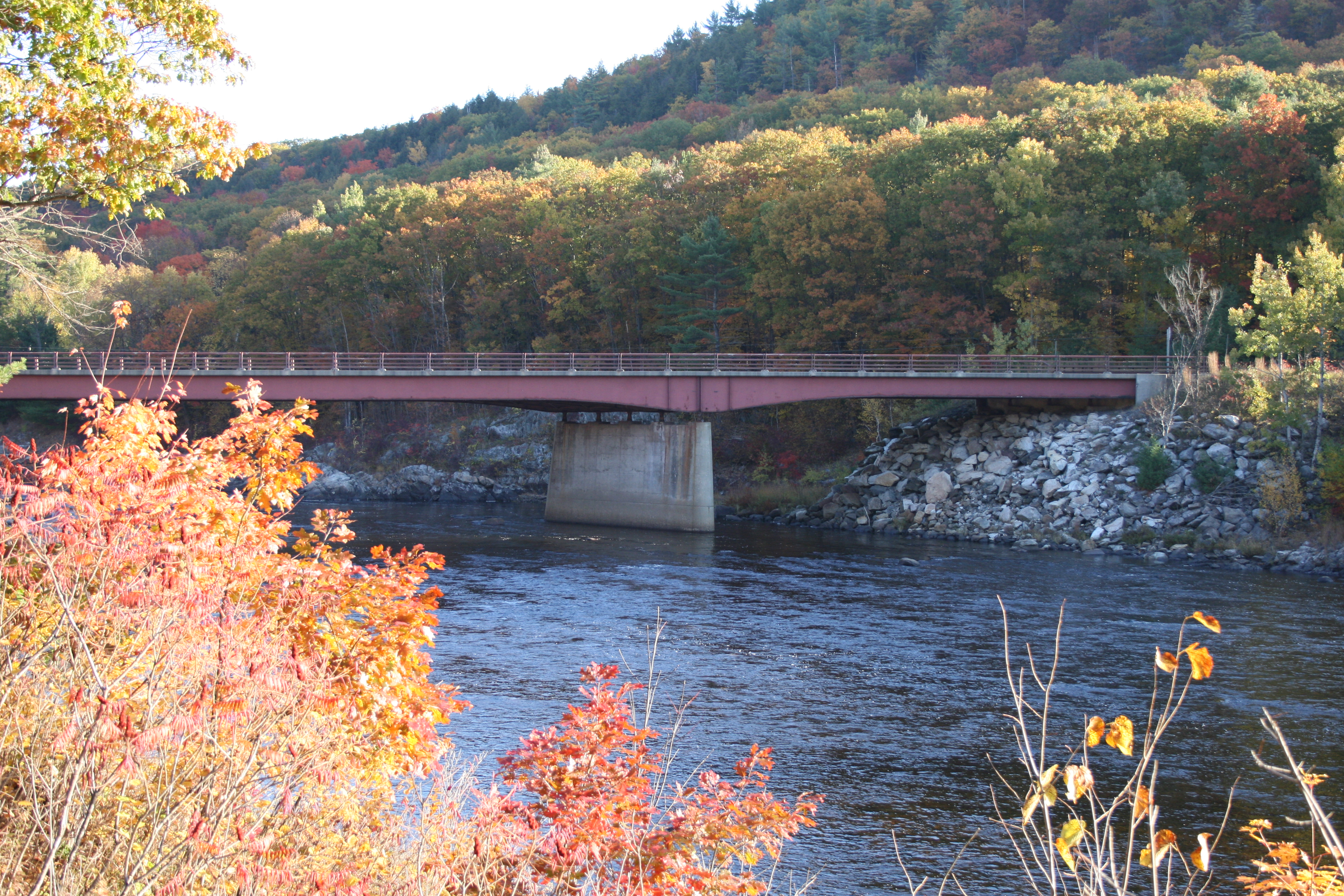 A southern view of the Glen Bridge from the western shore of the Hudson River